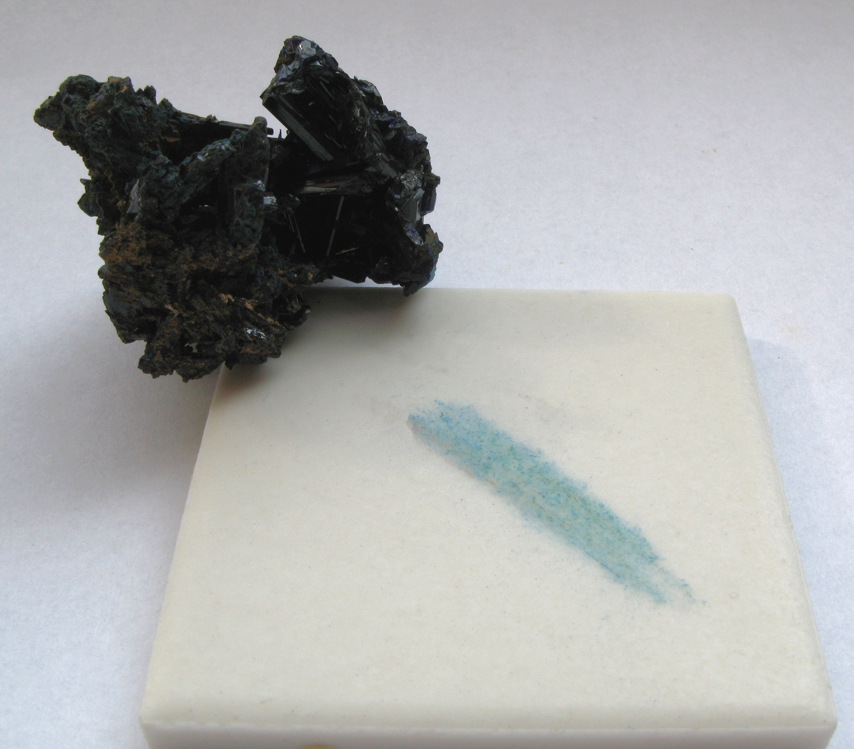 Streak color of Azurite